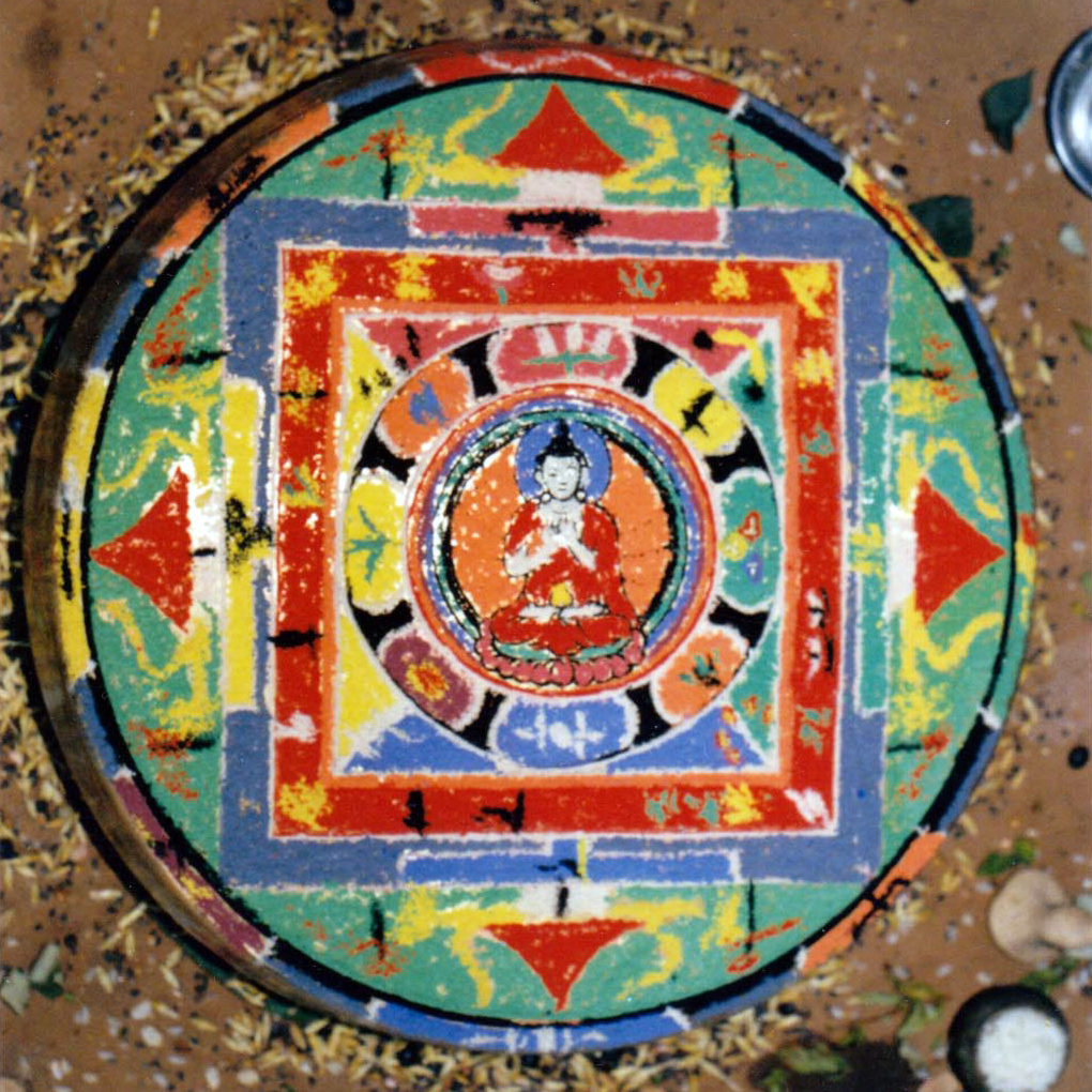 Newar Buddhists of Nepal make a mandala (sand painting) depicting the Buddha as part of the death rituals on the third day after death and preserve it for four days